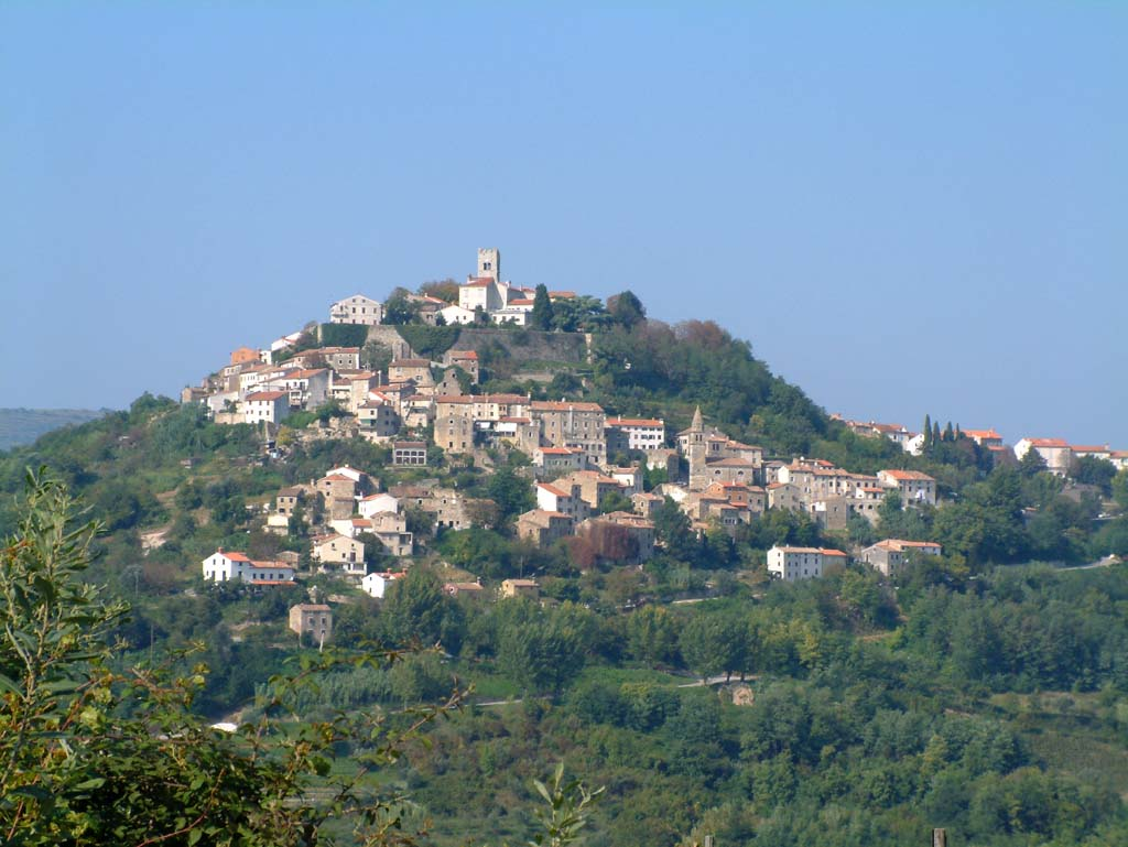 Old City of Motovun, Croatia. K. Korlević